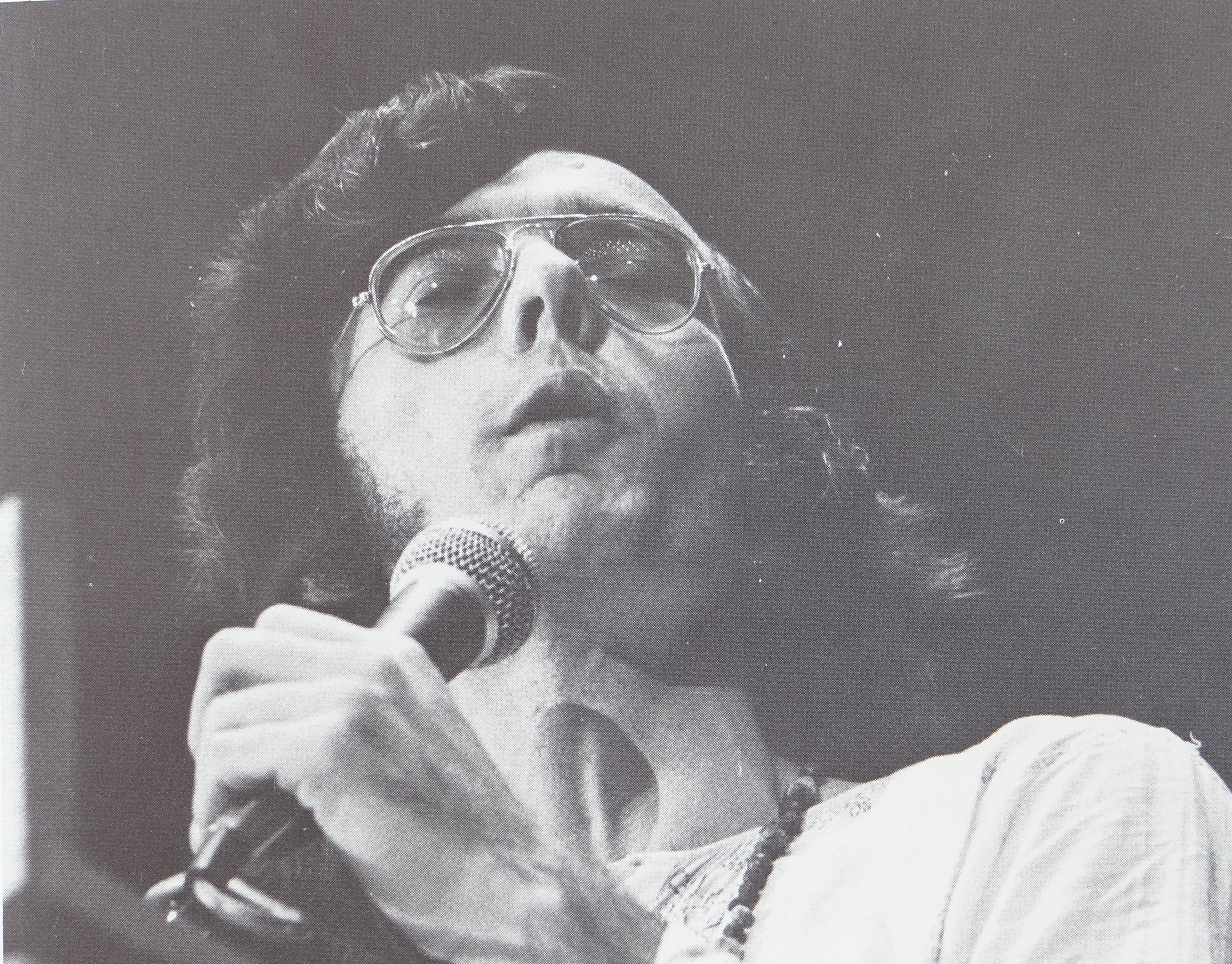 Photograph of Rennie Davis speaking at the John Sinclair Freedom Rally